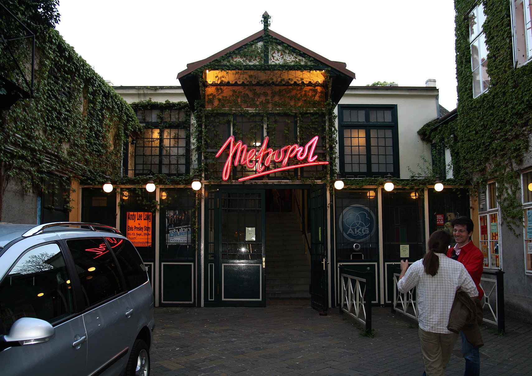 Main entrance of the Metropol in Vienna, Austria